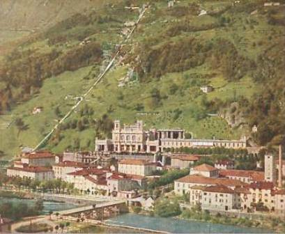 San Pellegrino Funicolar - 1921